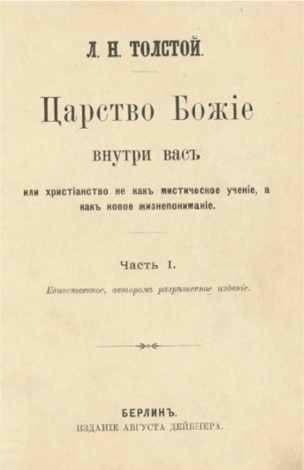 The Kingdom of God Is Within You (Russian: Царство Божие внутри вас) is the non-fiction magnum opus of Leo Tolstoy first published in Germany in 1894, after being banned in his home country of Russia.